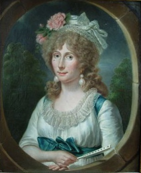 Portrait of Amelie-Julie Candeille (1767-1834), French opera singer and playwright